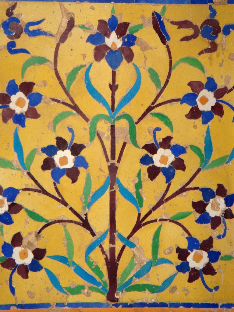 Picture by Kaiser Tufail, 5 Nov, 2006